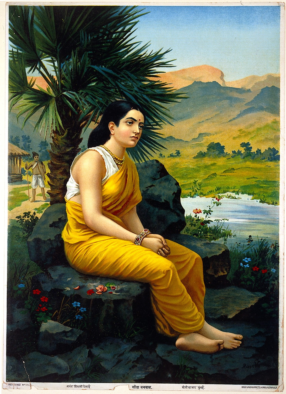 'Sita Vanavasa', Sita in exhile; Ravi Varma Press. Iconographic Collections Keywords: India